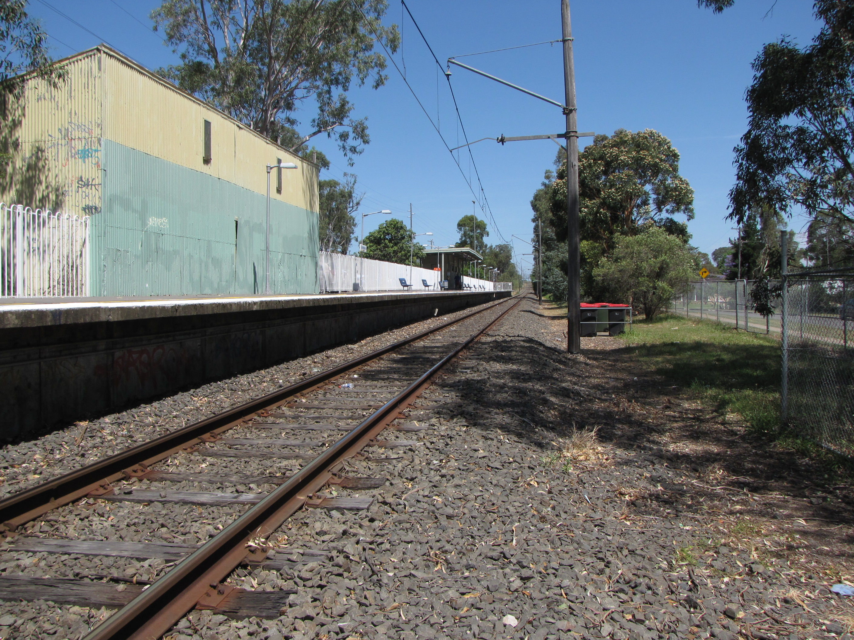 View of the platform at Schofields railway station. This station will be replaced with a new double track station about 800 metres closer to Sydney, to serve expected new housing developments in the area.